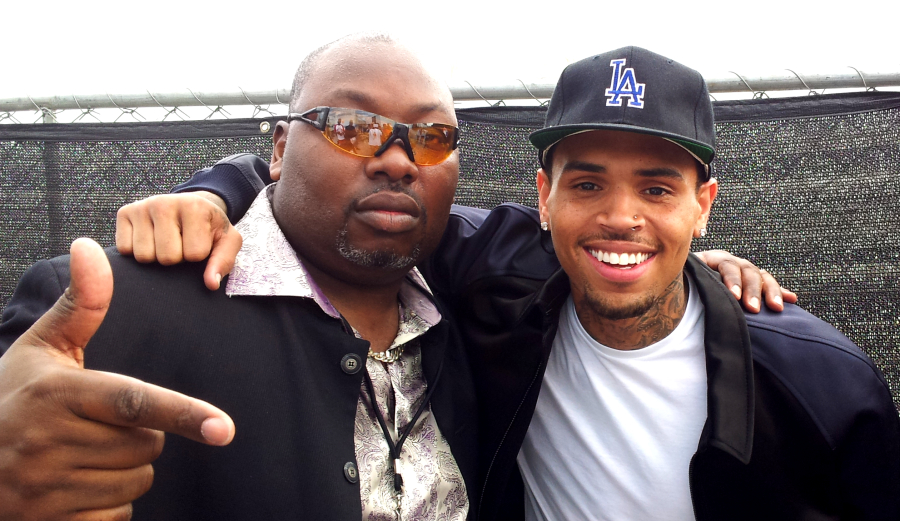 BLAK PROPHETZ (SURE SHOT) WITH CHRIS BROWN - BET AWARDS